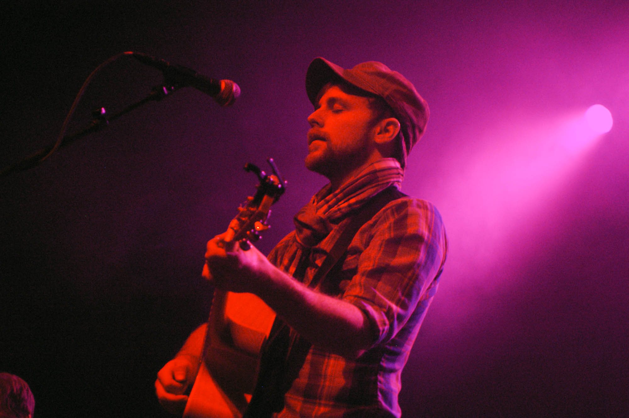 Red Wanting Blue opens the Centennial Concert held Sunday in Anderson Arena.